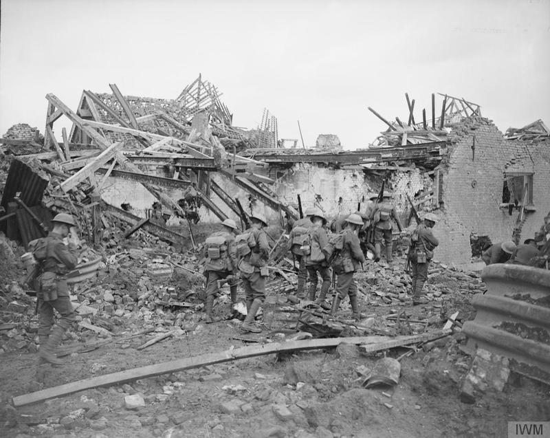 The Battle of Passchendaele, July-november 1917 A patrol of the 19th Battalion, London Regiment in the ruins of a village on the 47th Division front before Ypres, 27 August 1917.